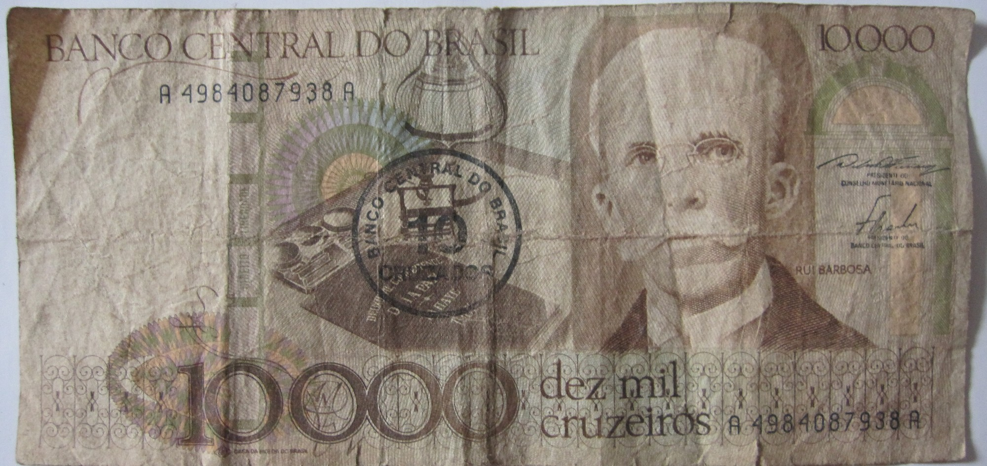 Brazilian 10 Cruzado-10000 Cruzeiro Banknote Unknown